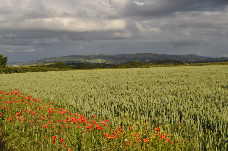 Poppies in a field, Data from Geograph: Description: The poppies are growing next to a wheat field where the sprayer can't reach them. Taken from the coastal footpath. ICBM: 51.182489285703, -3.3648618469018 Location: (about 2 km from) near to Old Cleeve, Somerset, Great Britain.